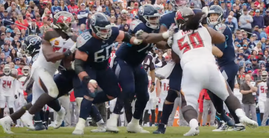 Vita Vea 2019. Image from video Titans Mic'd Up vs. Bucs (Week 8) | Sounds of the Gamee, ~ 02:34.